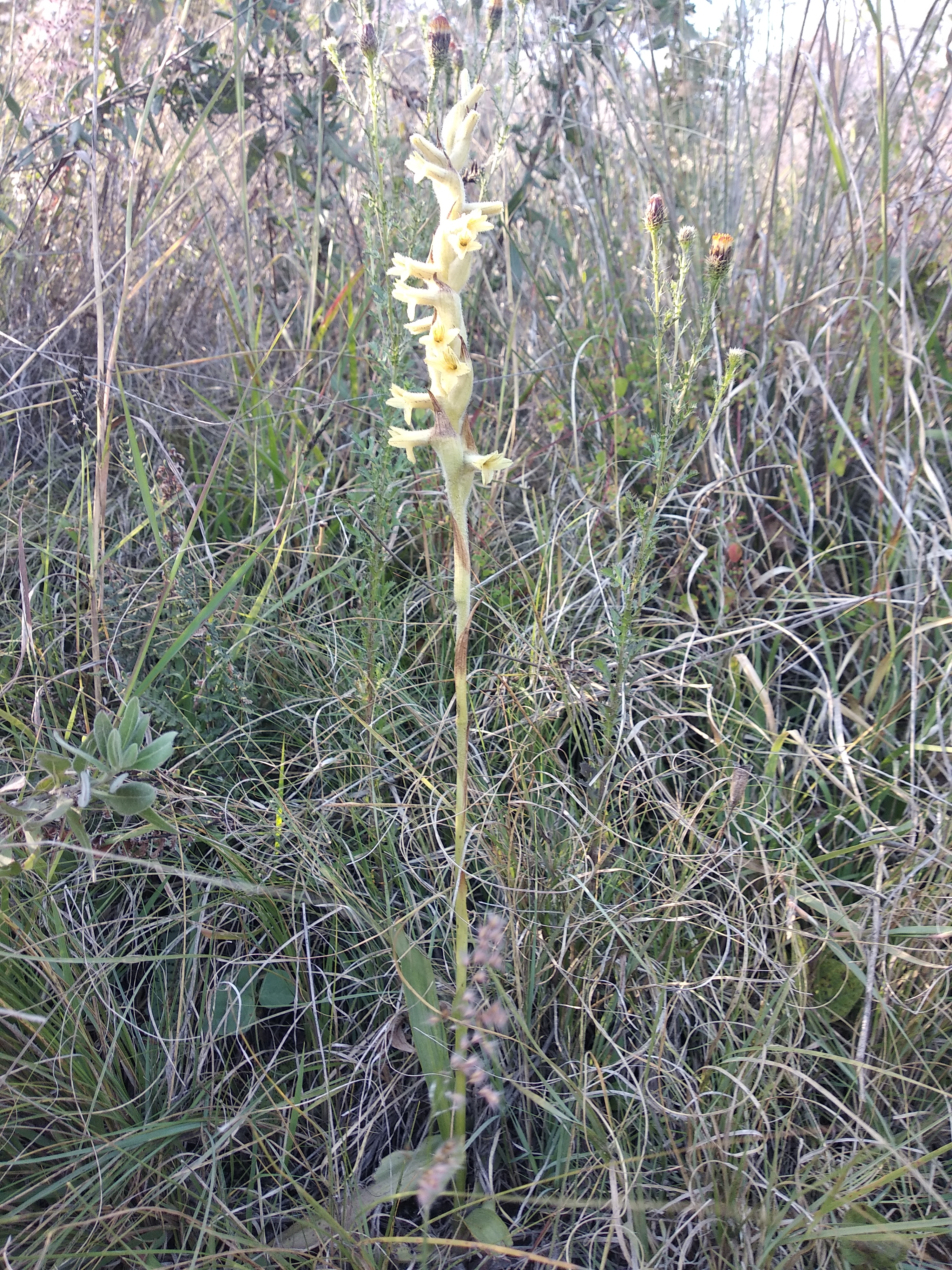 Dichromanthus michuacanus is a terrestrial orchid native of Mexico and the SW United States. Its white flowers bloom roughly from November to January. This photo was taken at cerro Zapotecas, in Cholula, Puebla, Mexico.